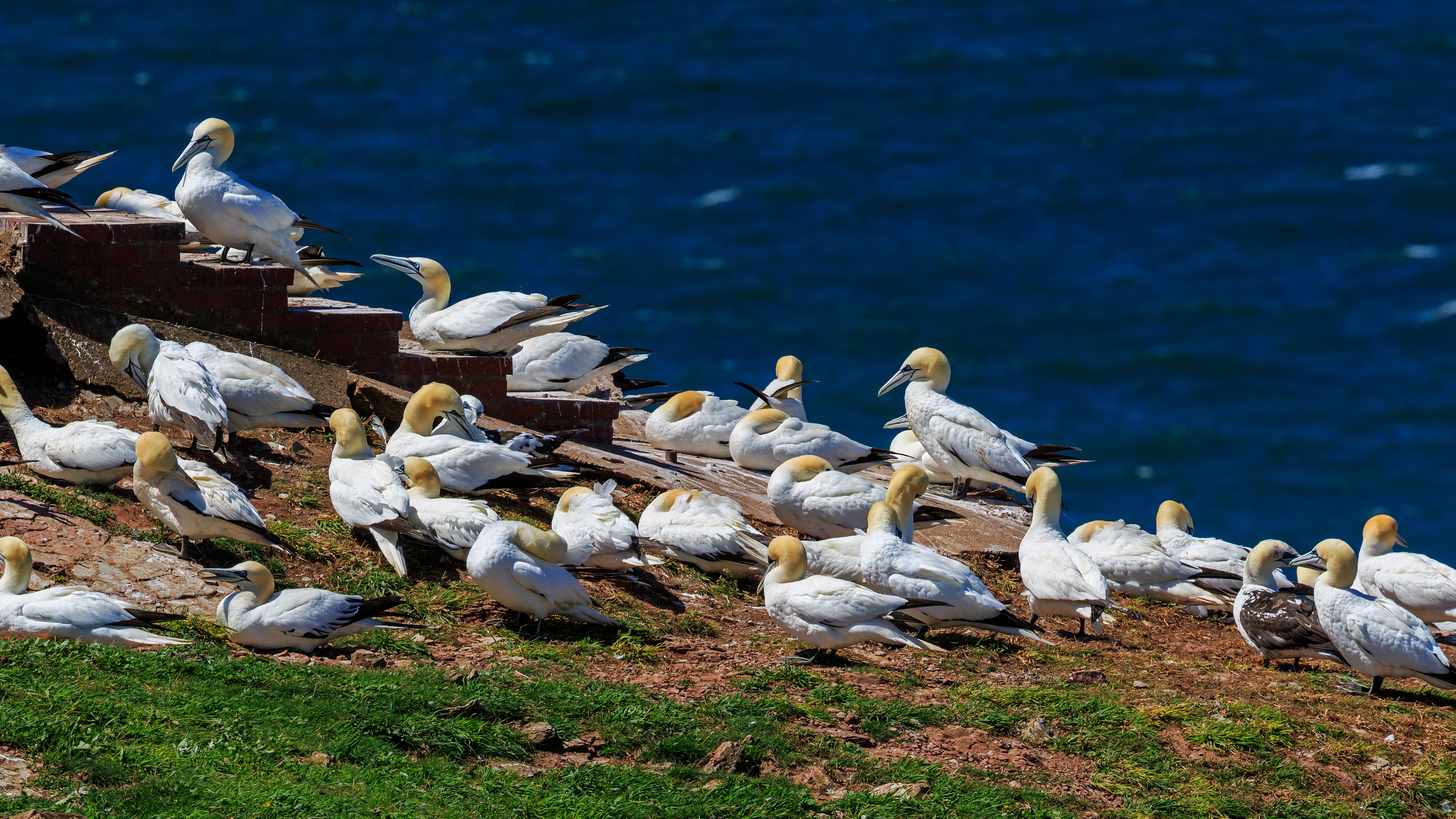 View of the cliffs from upper island of Heligoland, Germany